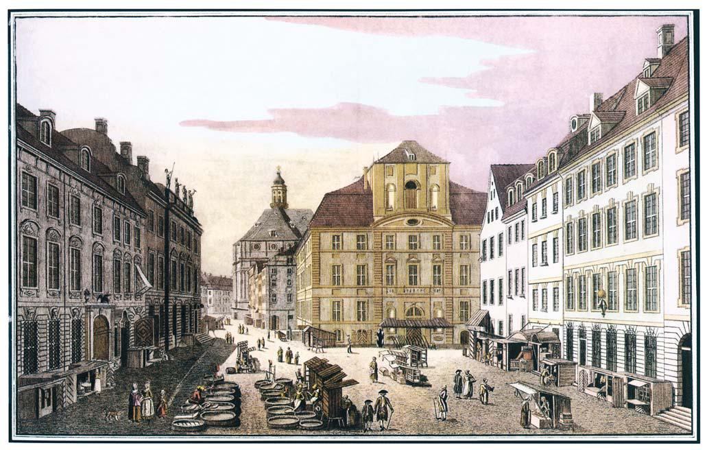 The square Cöllnischer Fischmarkt (“Cölln fish market”) with the town hall constructed between 1710 and 1723 after plans of Martin Grünberg. In the background the Petrikirche in baroque style.